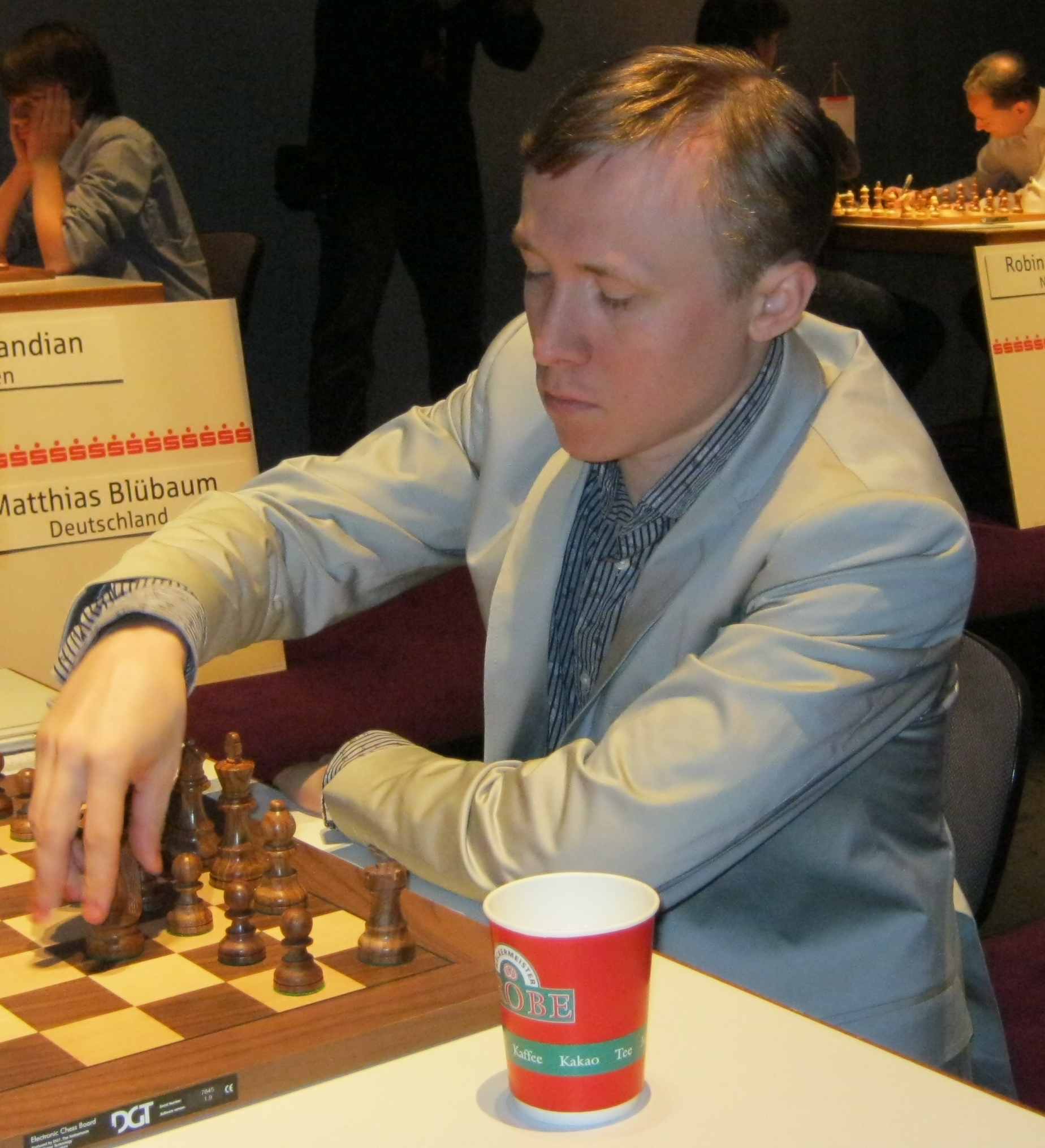 Ruslan Ponomariov, chess grandmaster from Ukraine